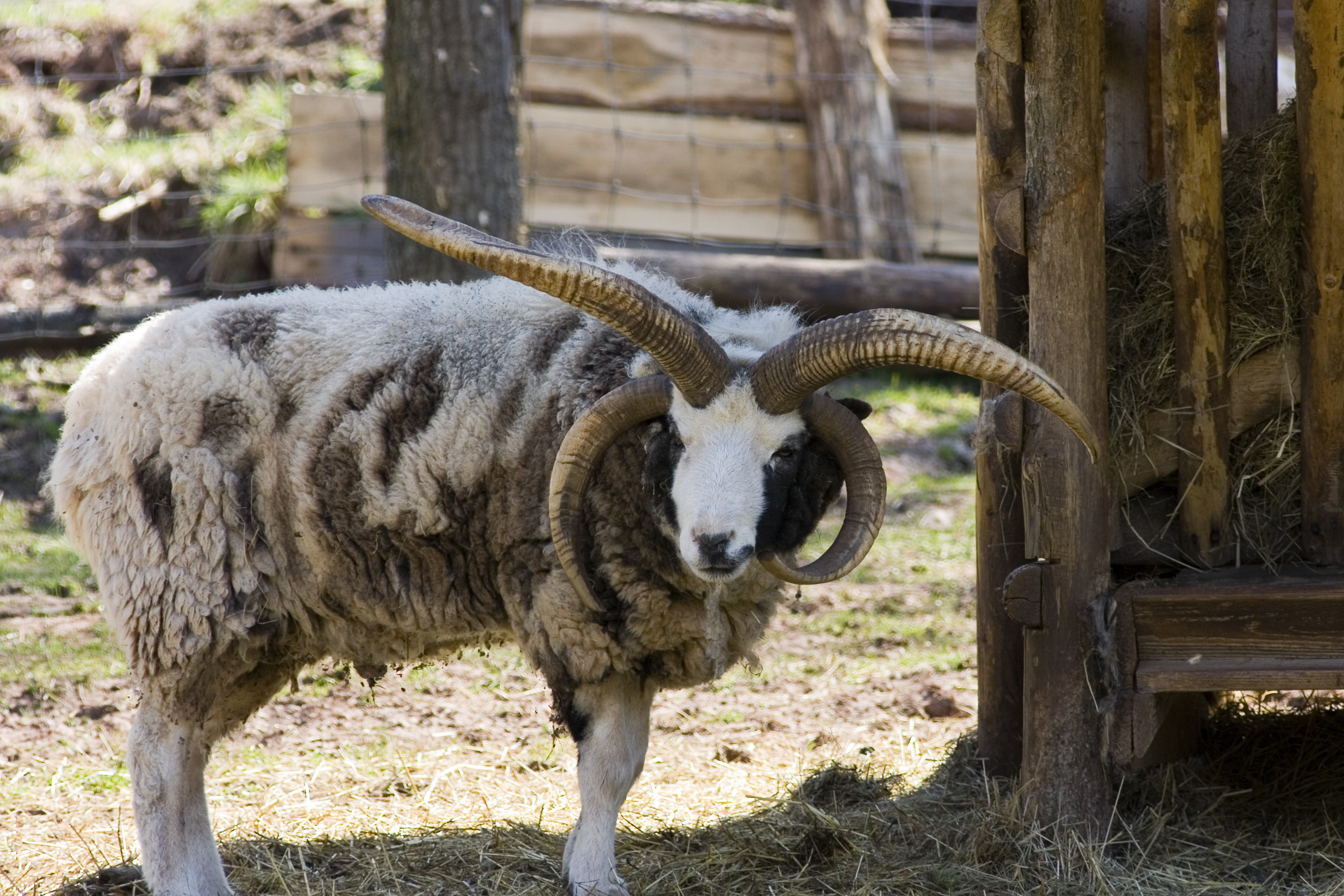 A four-horned Jacob sheep.